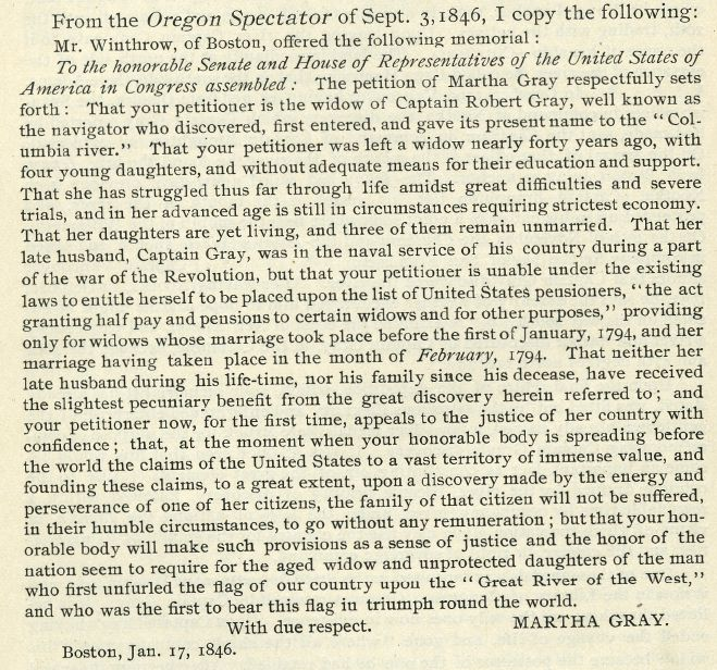 Text of a petition by Martha Gray